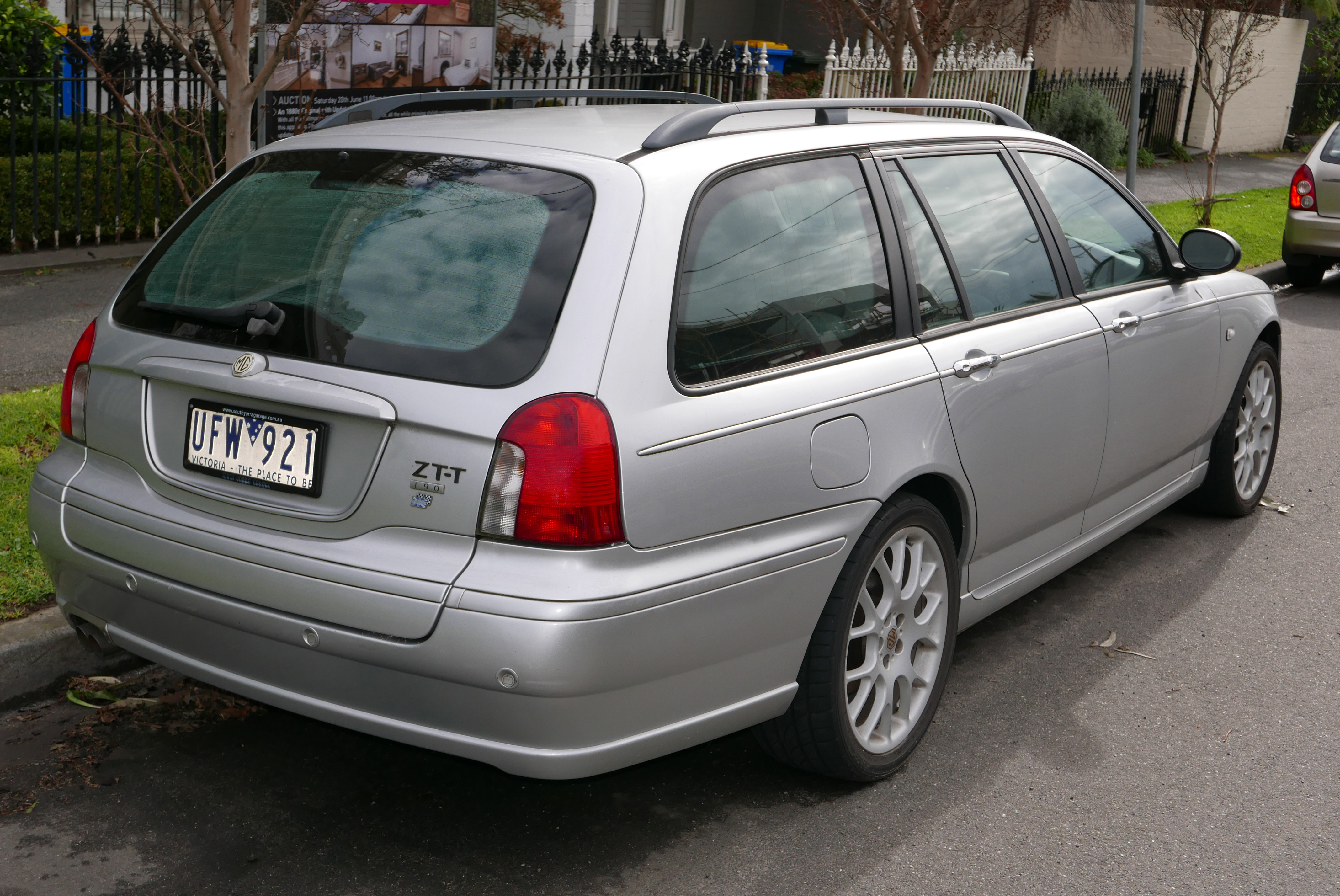 2003 MG ZT-T+ 190 station wagon. Photographed in Hawthorn, Victoria, Australia. Vehicle registration enquiry resultsJurisdictionVictoriaRegistrationUFW921Chassis codeSARRJXTFF3D261291Engine code25K4FN31222674Compliance date2003-06Year of manufacture2003